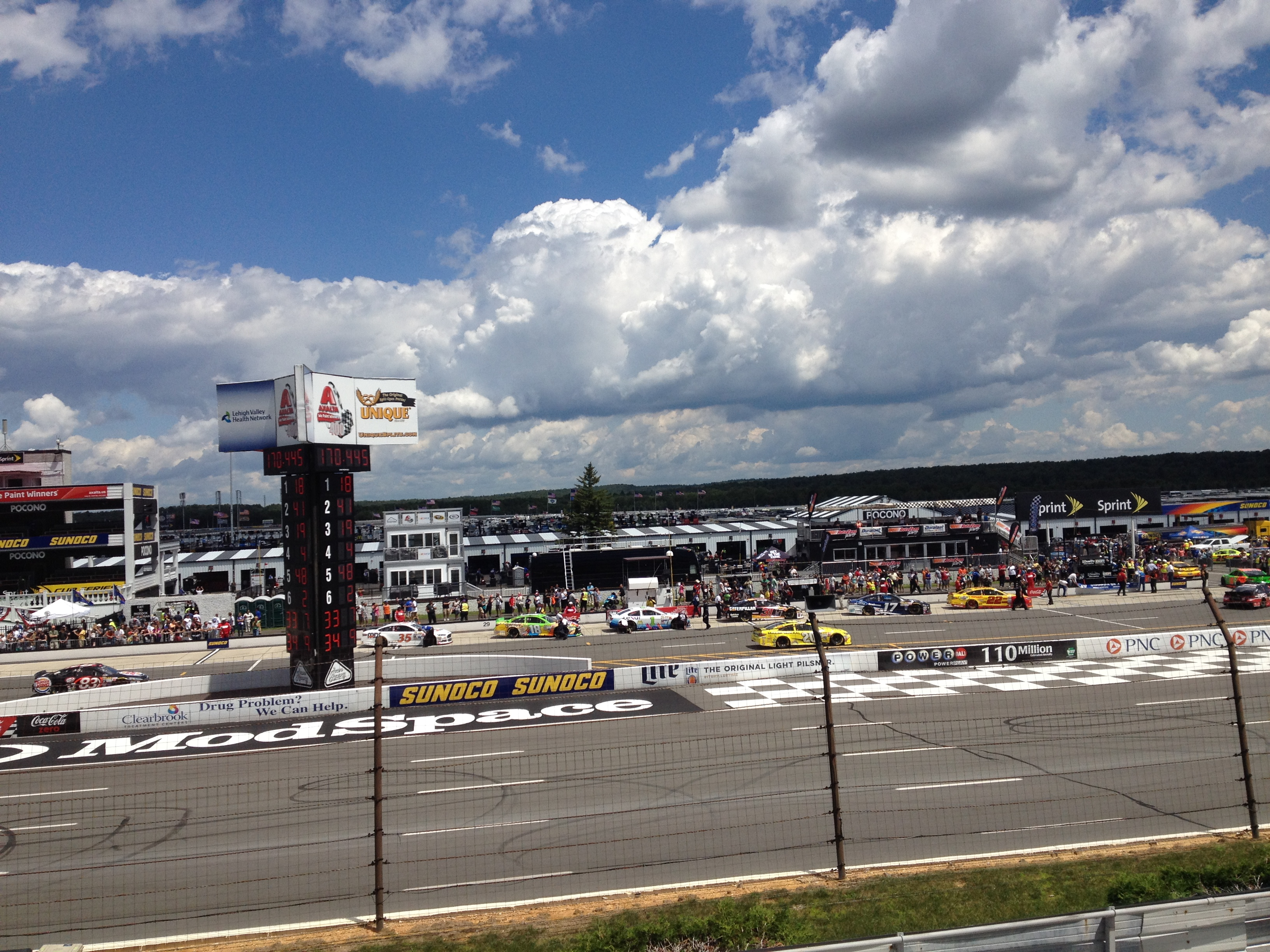 Final practice for the 2015 Windows 10 400 at Pocono Raceway viewed from the start/finish line